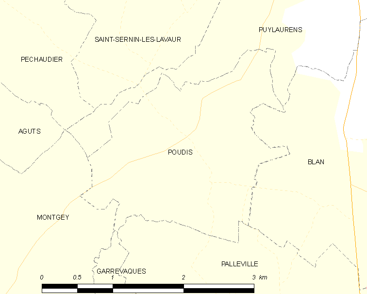 Map of French municipality Poudis